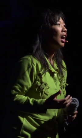 American comedian and performer Kristina Wong in her solo show Wong Flew Over the Cuckoo's Nest. Screencap at 00:51.